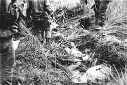 Abandoned children bodies in ditch. U.S Army and South Vietnamese Army were searching for other abandoned bodies.